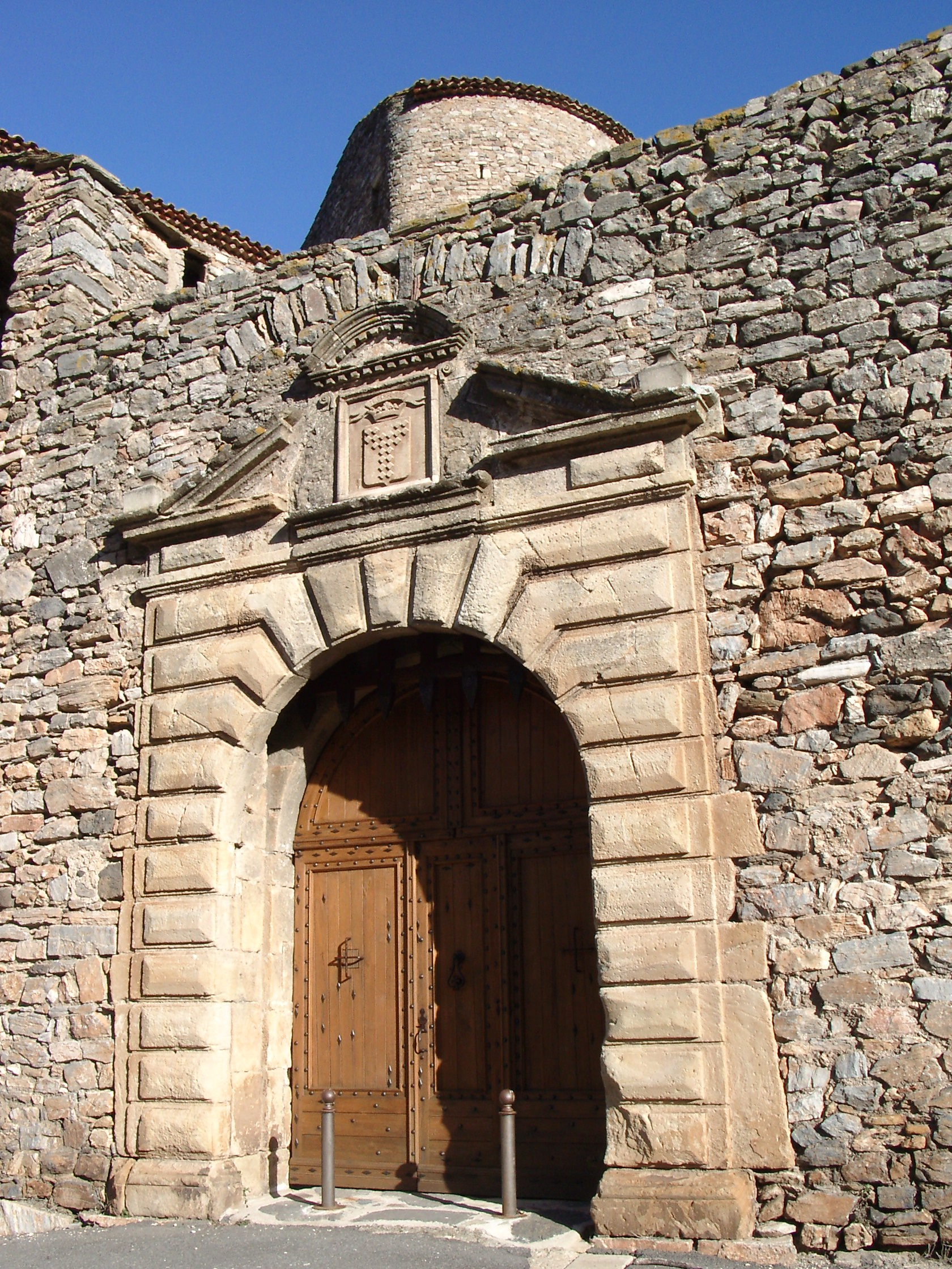 Porch of the Castle in Pézènes-les-Mines